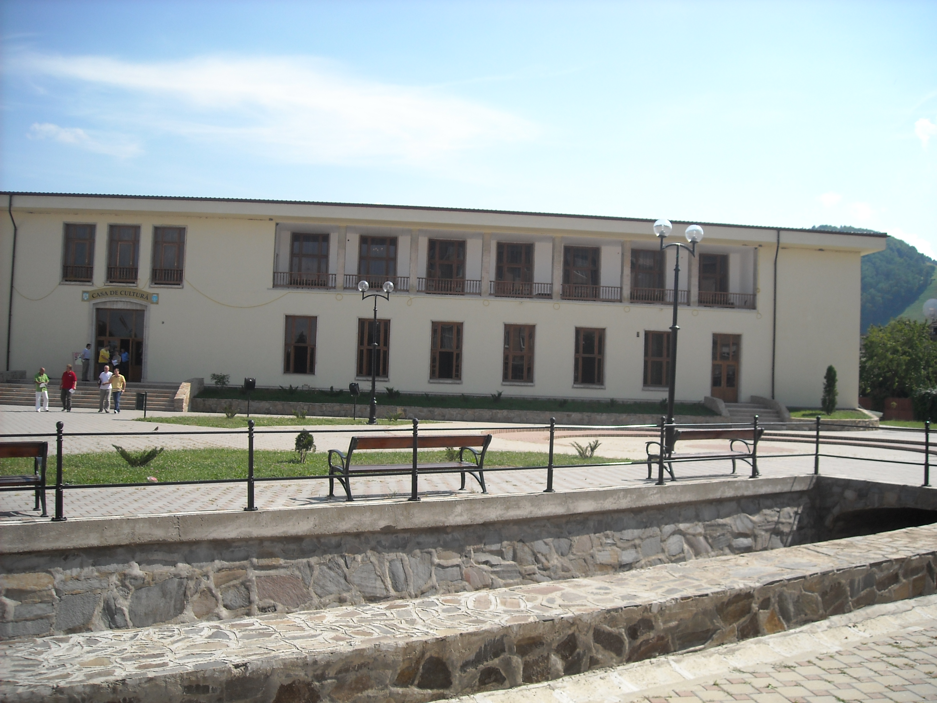 community center on main place, Cugir, Romania